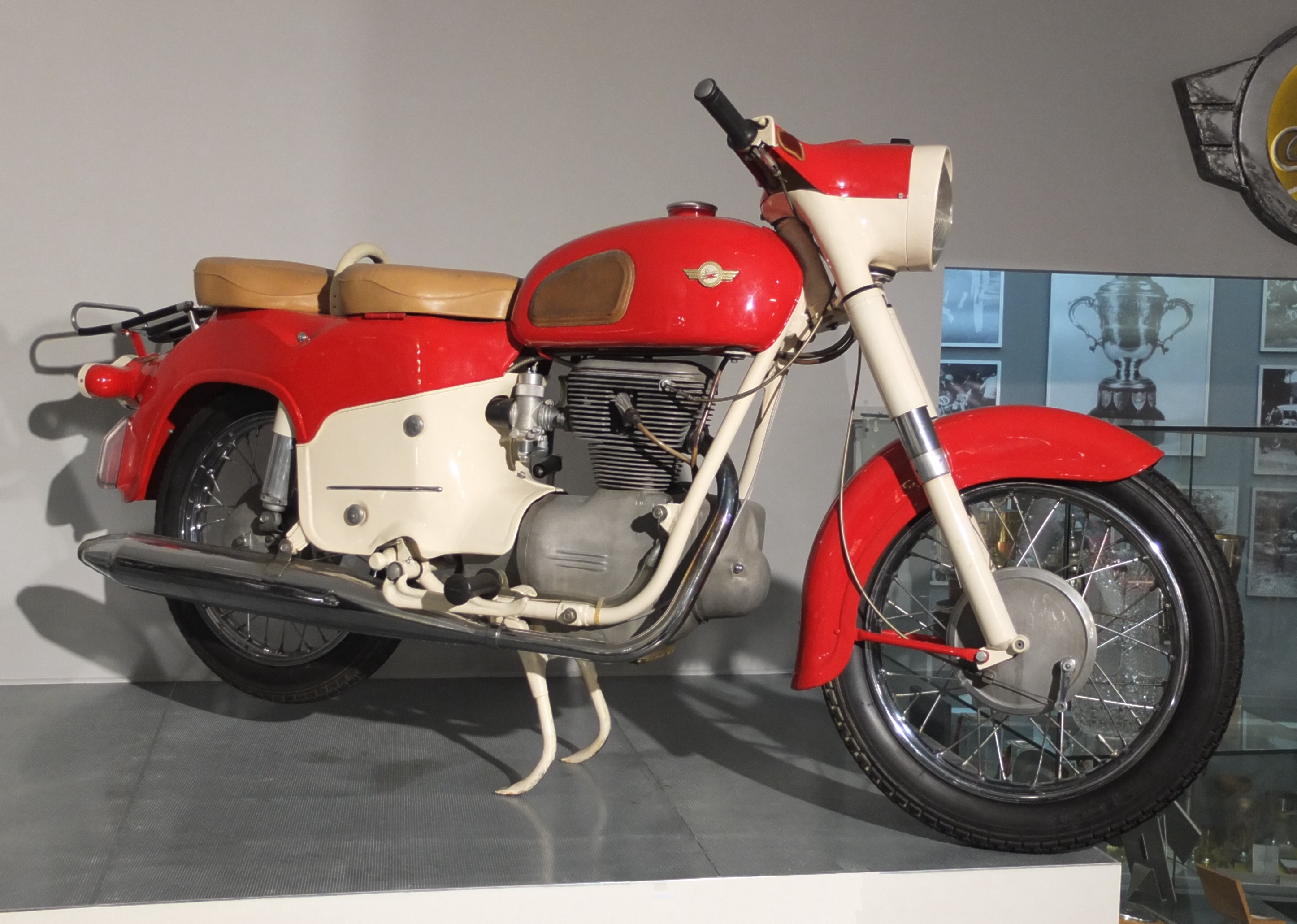 Simson S350 (1960) in Fahrzeugmuseum Suhl